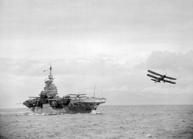 Fairey Albacores of No 820 Squadron Fleet Air Arm from HMS Formidable (R67) in the Indian Ocean. One of the aircraft has just flown off the aircraft carrier whilst two more can be seen on deck (photographed from HMS Warspite).